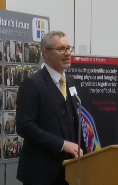 Paul Hardaker, CEO of the Institute of Physics speaking in 2017.